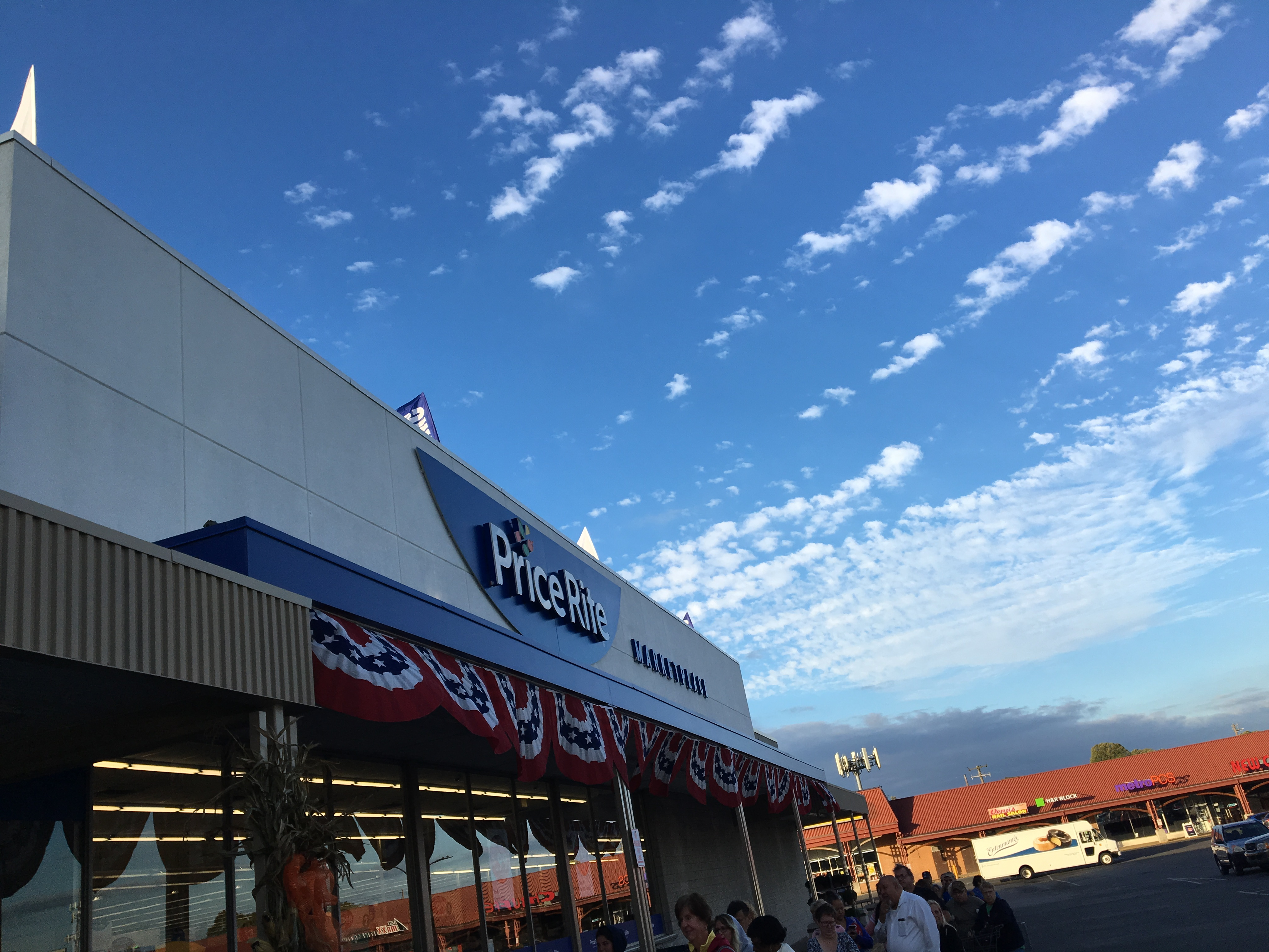 Price Rite Allentown Grand Re-Opening